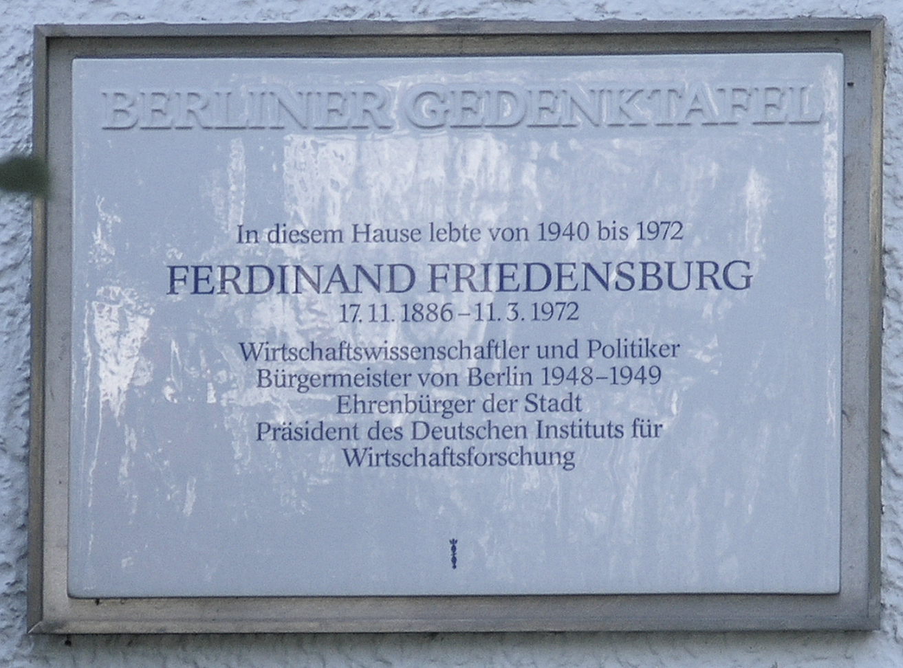 Berlin memorial plaque, Ferdinand Friedensburg, Hoiruper Straße 12a, Berlin-Nikolassee, Germany